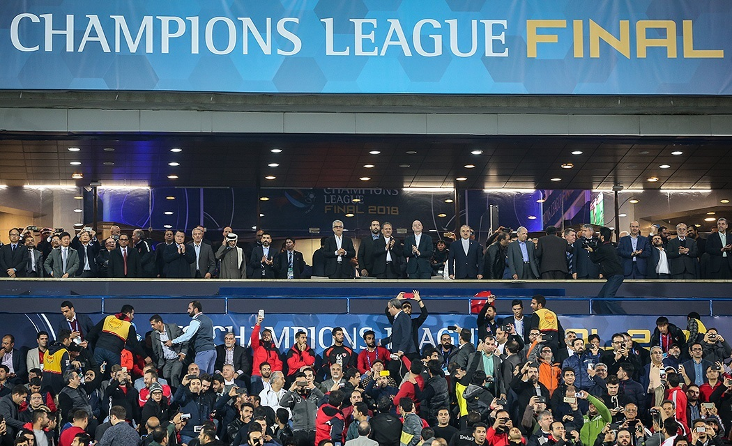 Persepolis FC v Kashima Antlers (0-0), 2018 AFC Champions League Final, Second leg, 10 November 2018